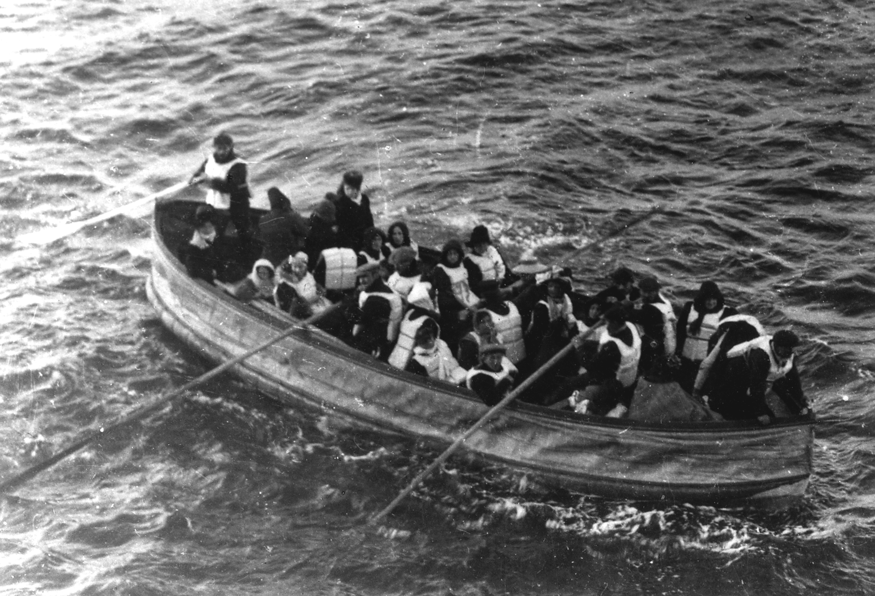 Last lifeboat arrived, filled with Titanic survivors. This photograph was taken by a passenger of the Carpathia, the ship that received the Titanic's distress signal and came to rescue the survivors. It shows the last lifeboat successfully launched from the Titanic.